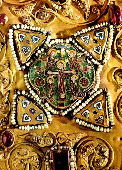 Khakhuli triptych, medieval artwork from Georgia. "Crucifixion of Jesus"